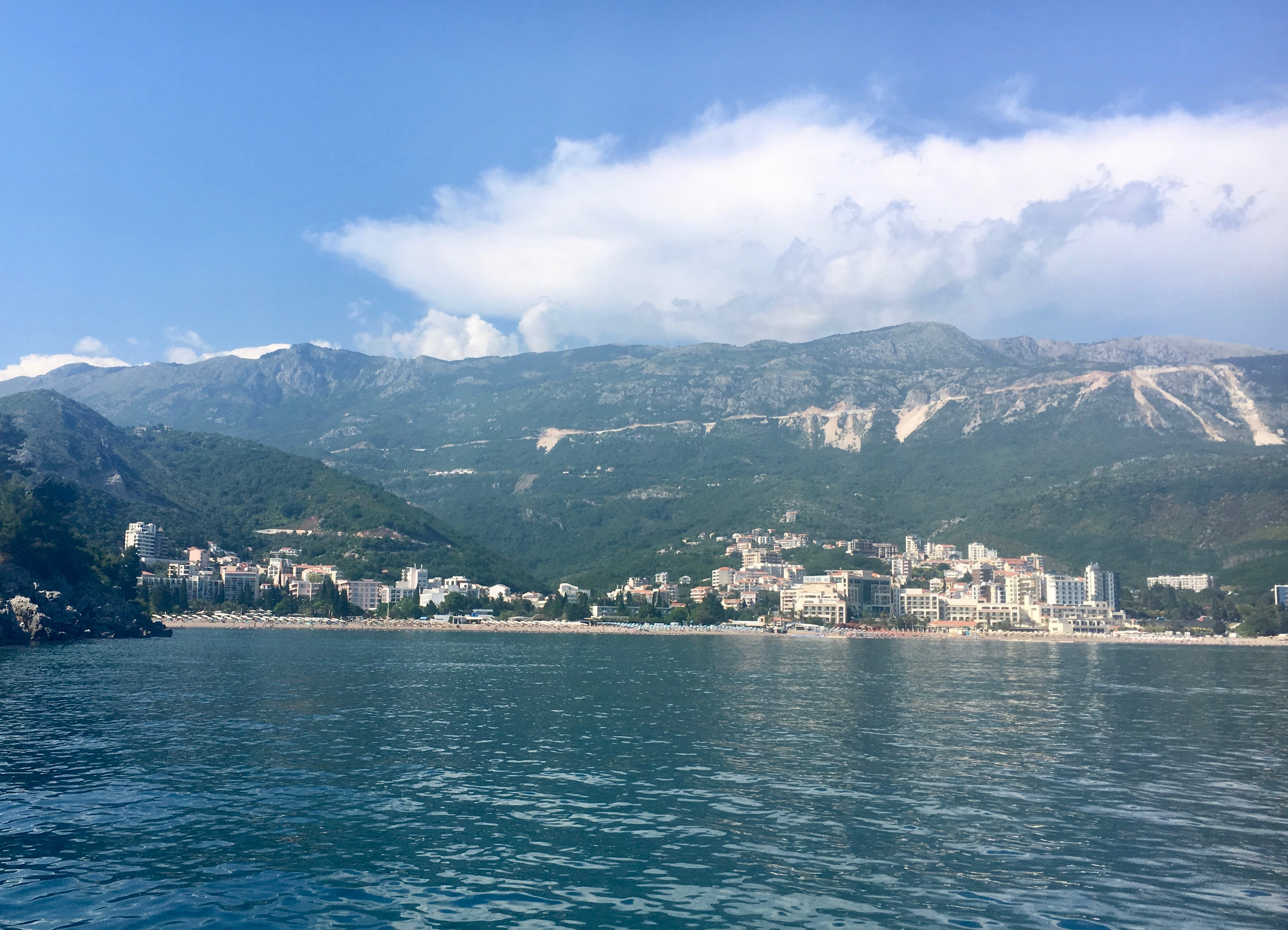 Bečići - a village in Budva riviera (Montenegro). The view from the sea contains the whole village and its beach.